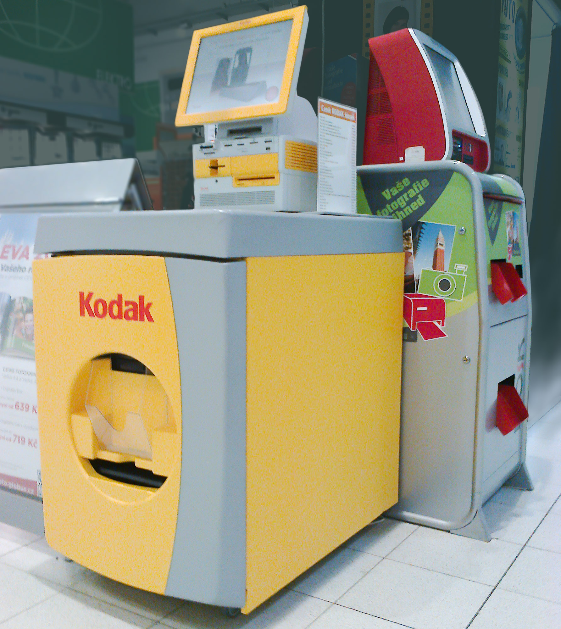 two dry minilabs in a shop centre